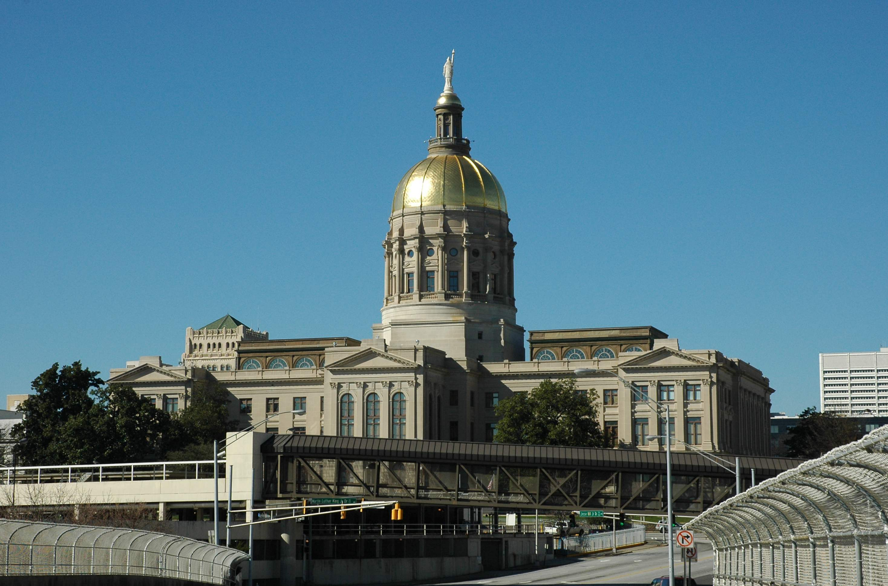 Georgia State Capitol building in Atlanta, Georgia. The dome is covered with gold leaf mined from the north Georgia city of Dahlonega. Photo taken Jan. 16 by J. Glover (AUtiger)